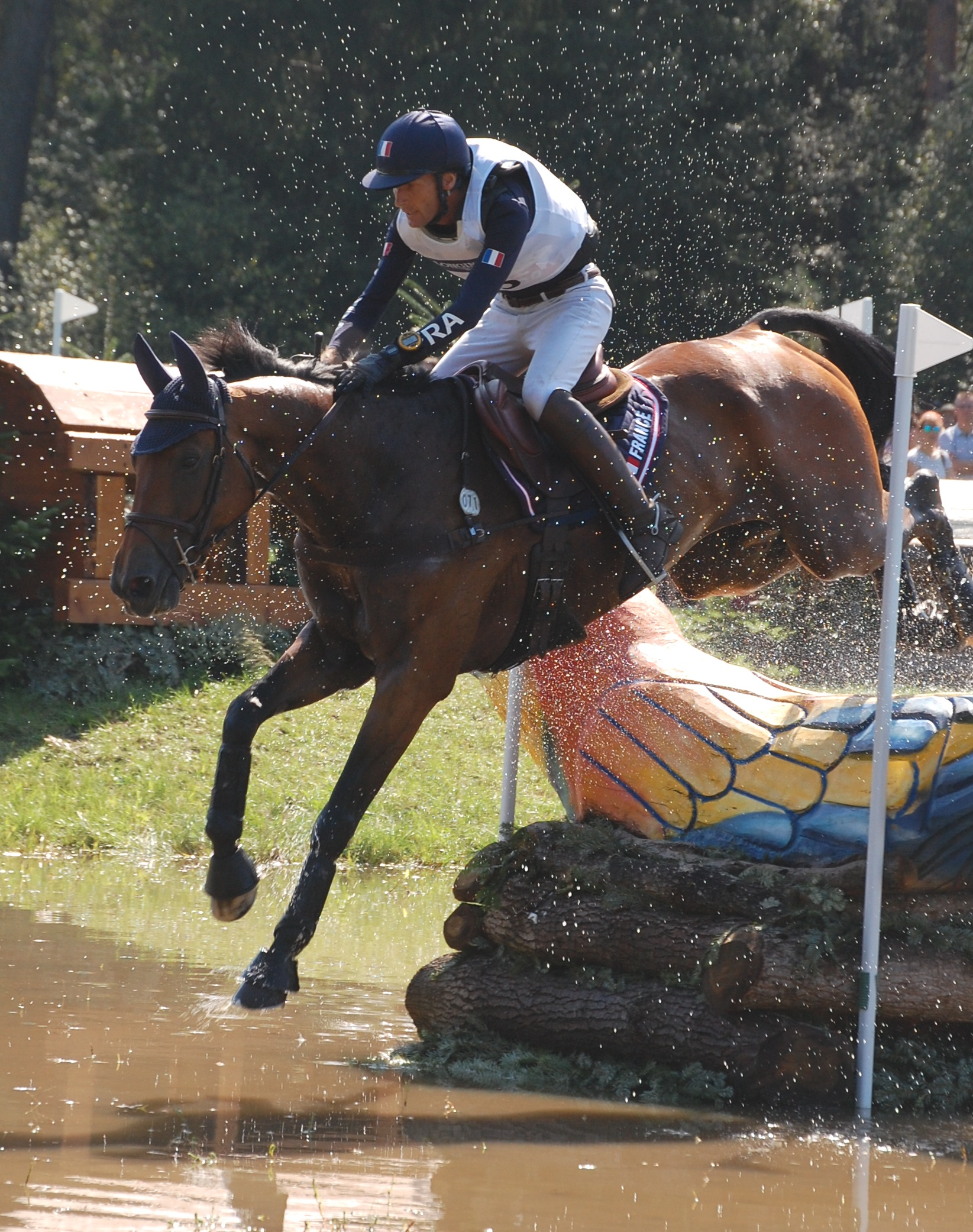 French rider Jean Lou Bigot and Utrillo du Halage, fence 20b, a bird at "Lake Land Rover" (cross-country phase), 2019 European Eventing Championship, Luhmühlen